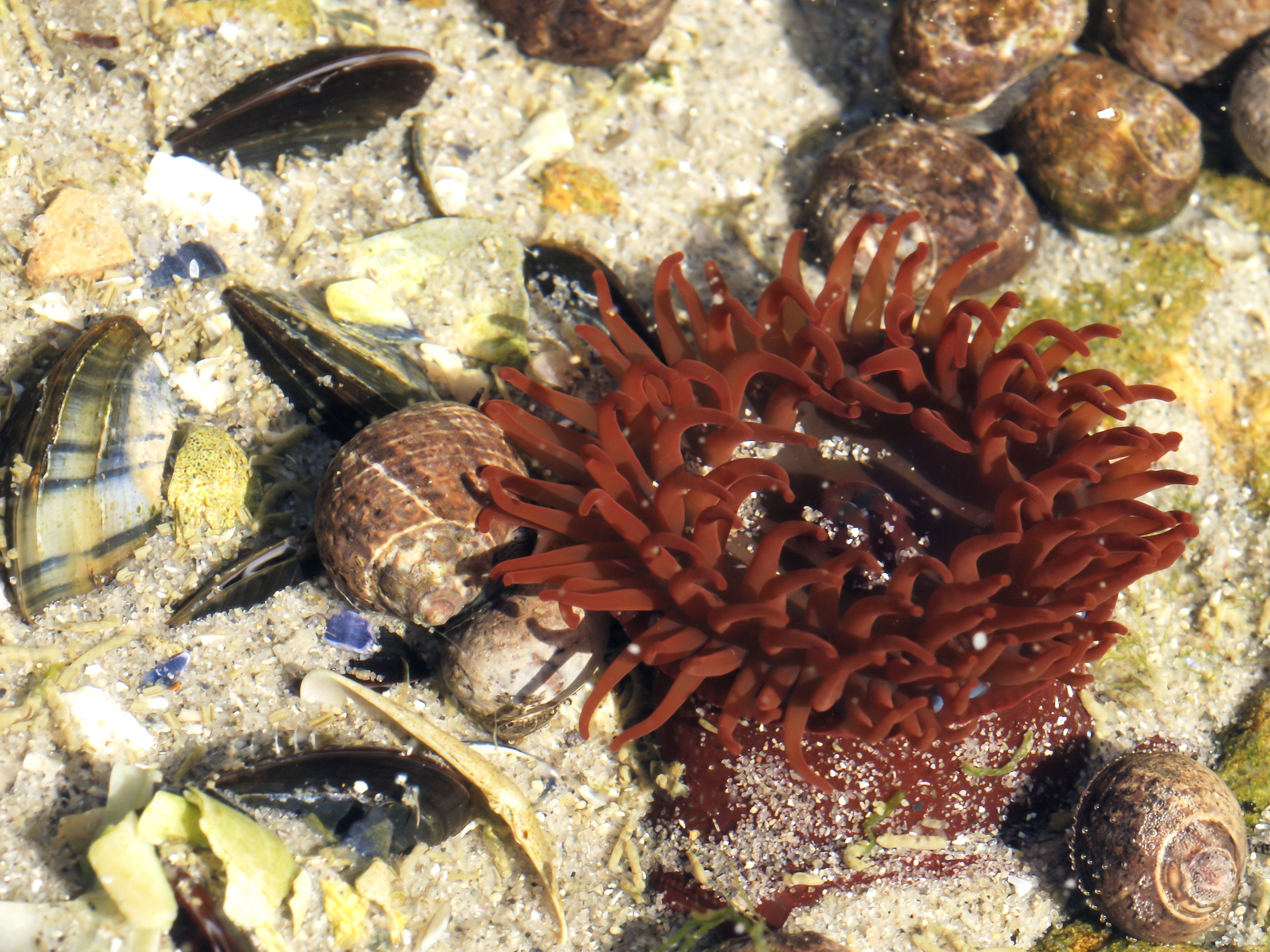 Beadlet anemone at Boulogne-sur-Mer, France